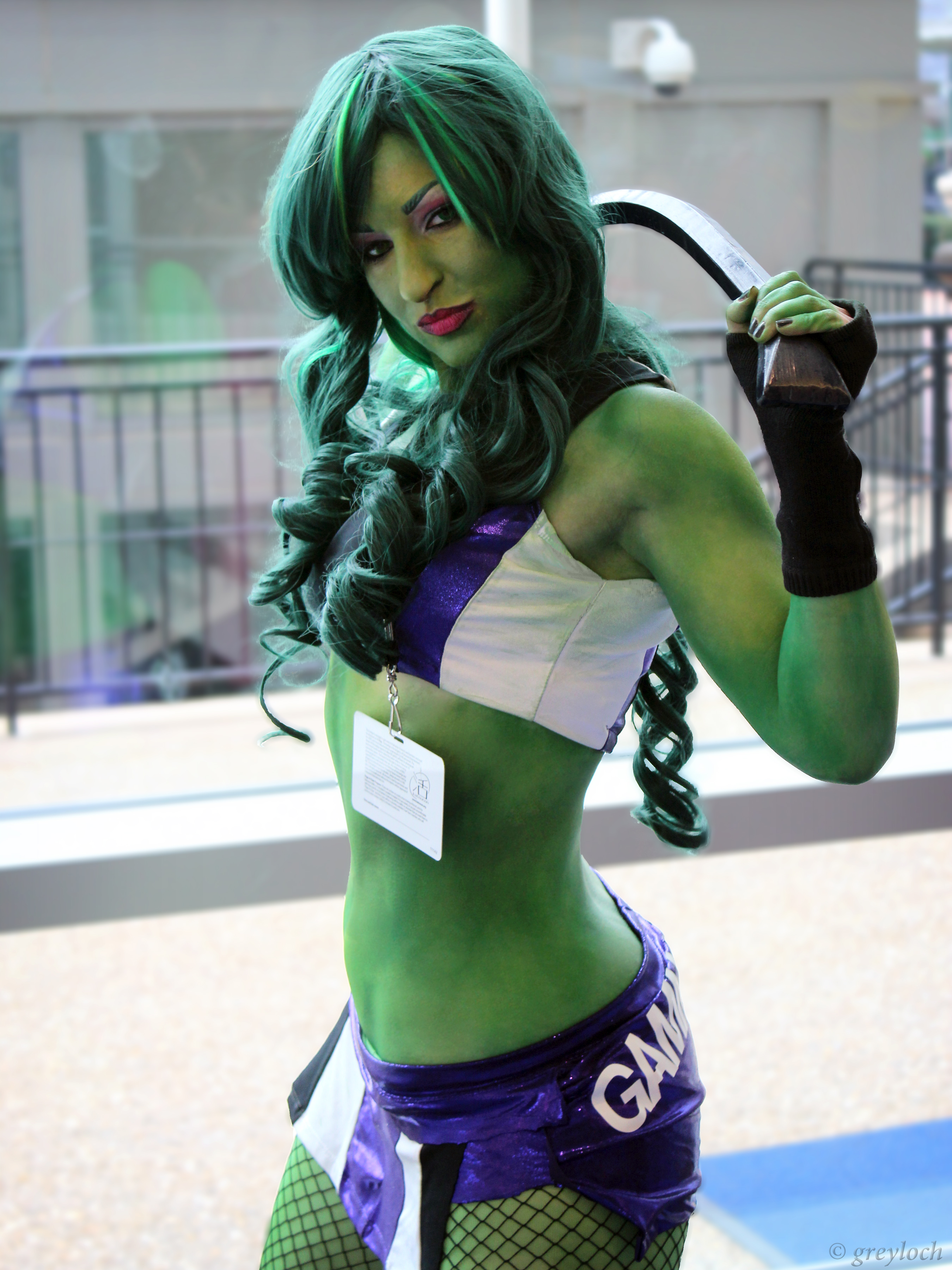 Echo Endless in her "Gamma Bomb" (it what is written across the back of her shorts) She-Hulk costume. Echo Endless is the same woman in the funky She-Hulk photo from Philly Comic-Con 2012. Tech stuff: I spent some time smoothing out her body make-up (due to wear, splotches, and streaks) with the PS clone & healing brushes and added a slight blur on her skin (~0.8 pixels).